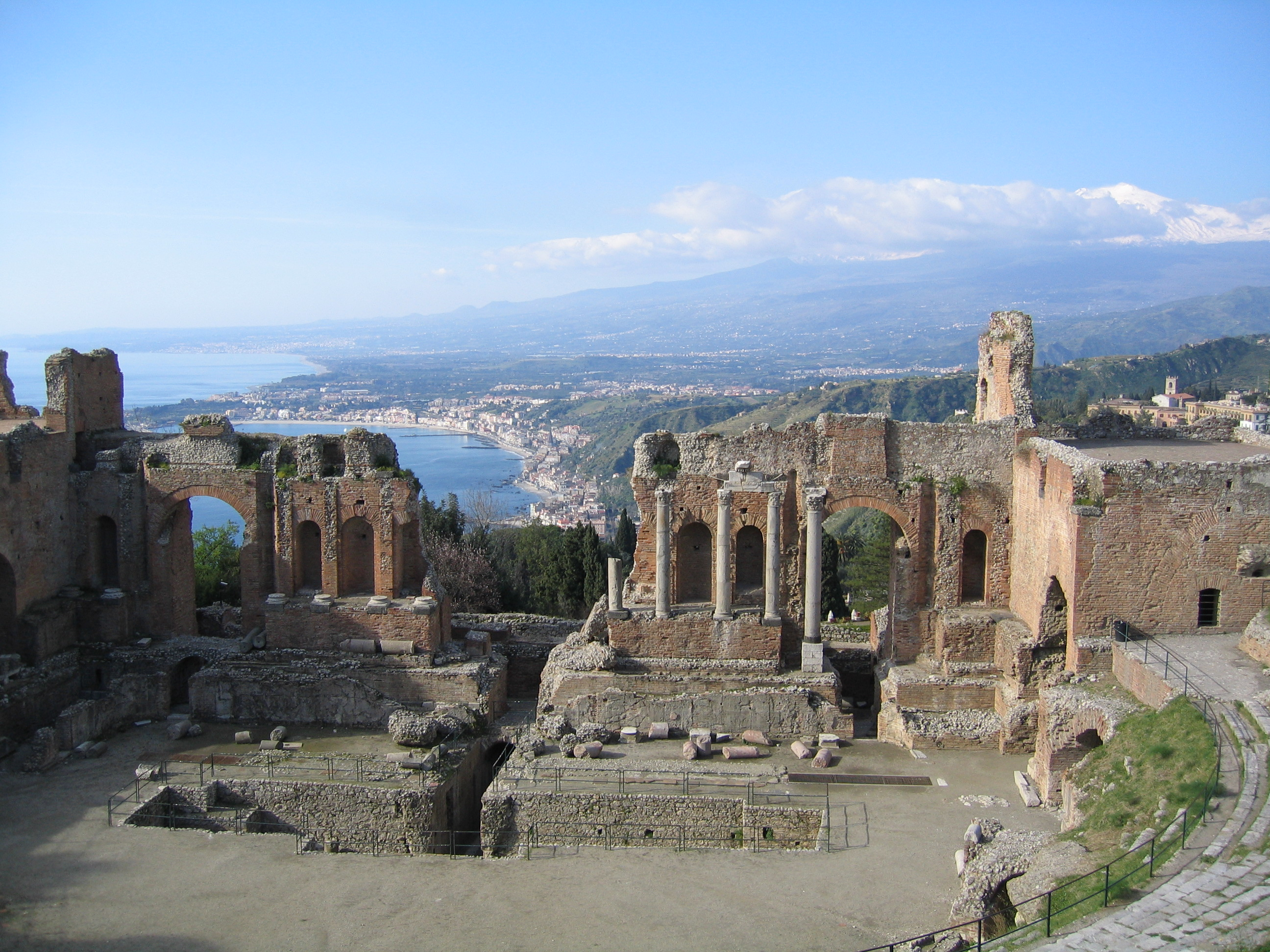 Greek Theater - Taormina, Sicily, Italy. Looking toward the south over Gardini-Naxox. Mt. Etna rises in the background